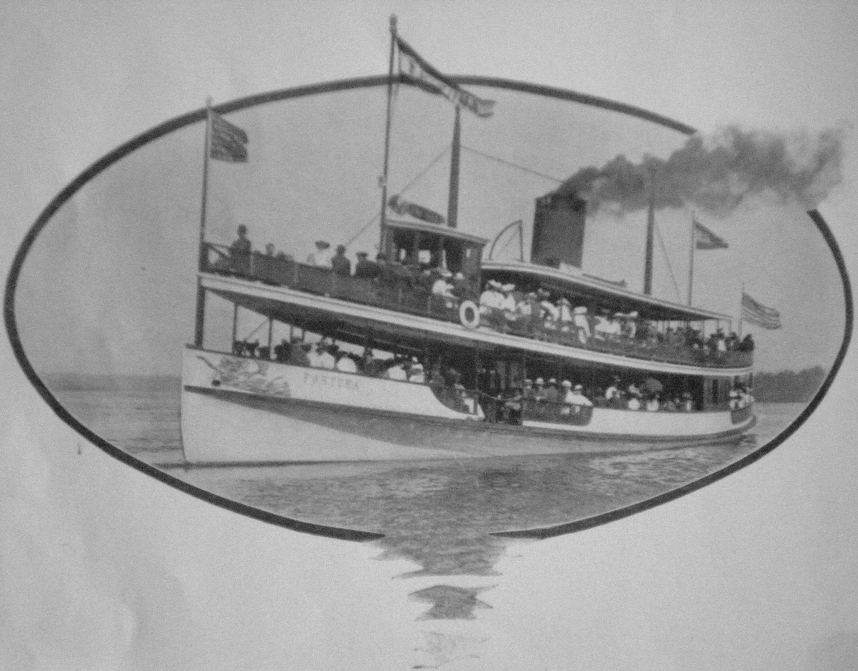 The Fortuna, Lake Washington steamer operated by the Anderson Steamboat Company, 1909.